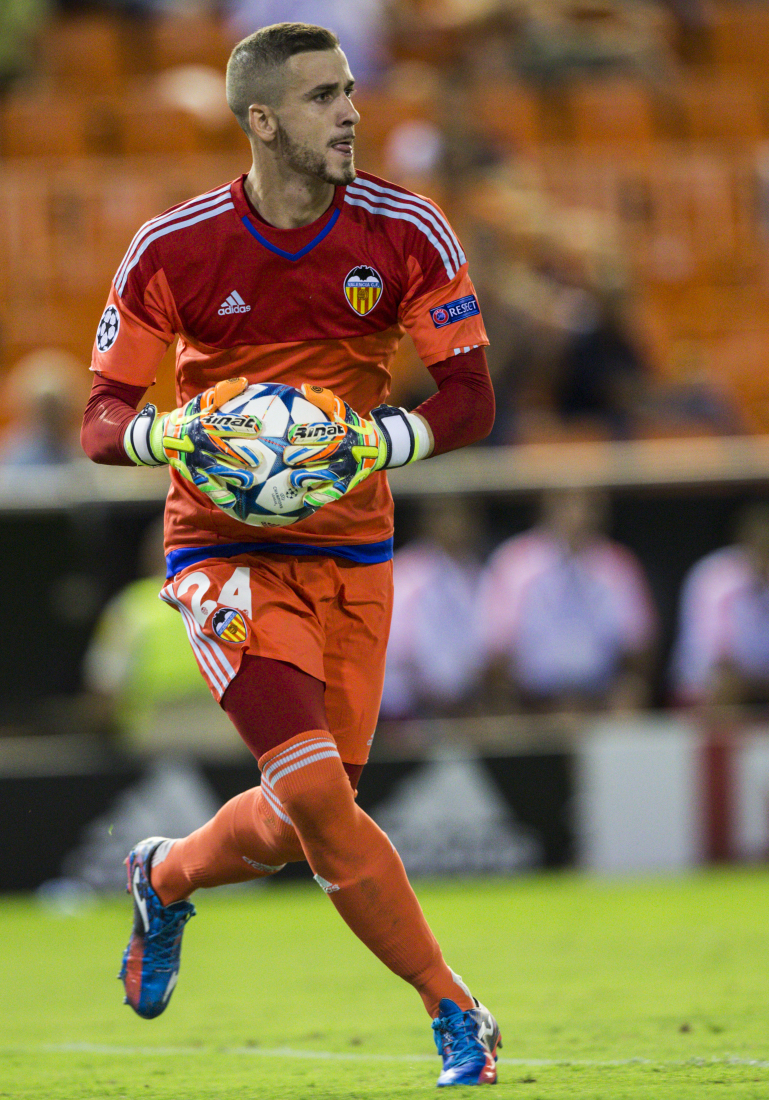 Jaume Domènech